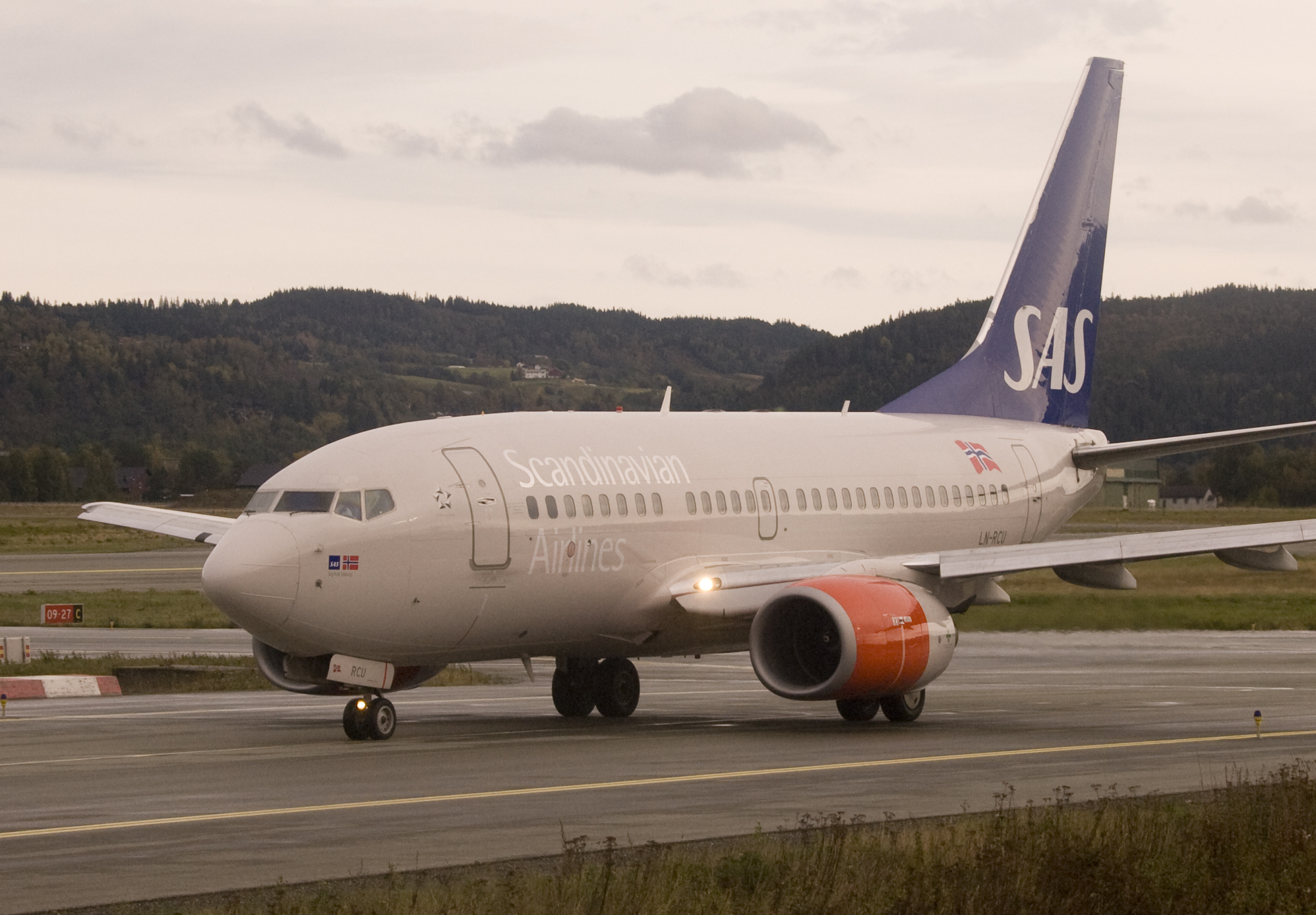 Scandinavian Airlines Boeing 737-600 LN-RCU at Trondheim Airport, Værnes